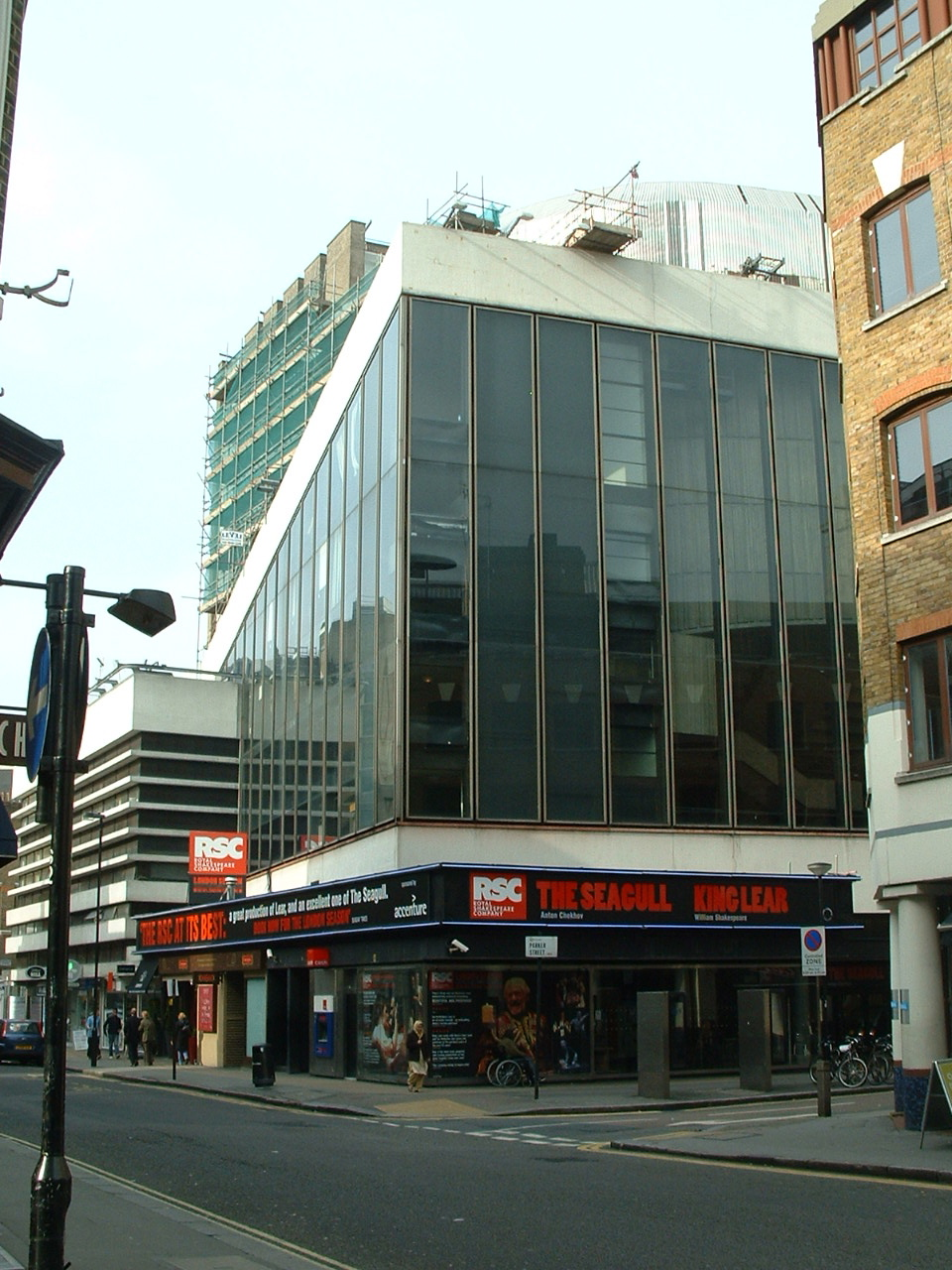 New London Theatre, London, England